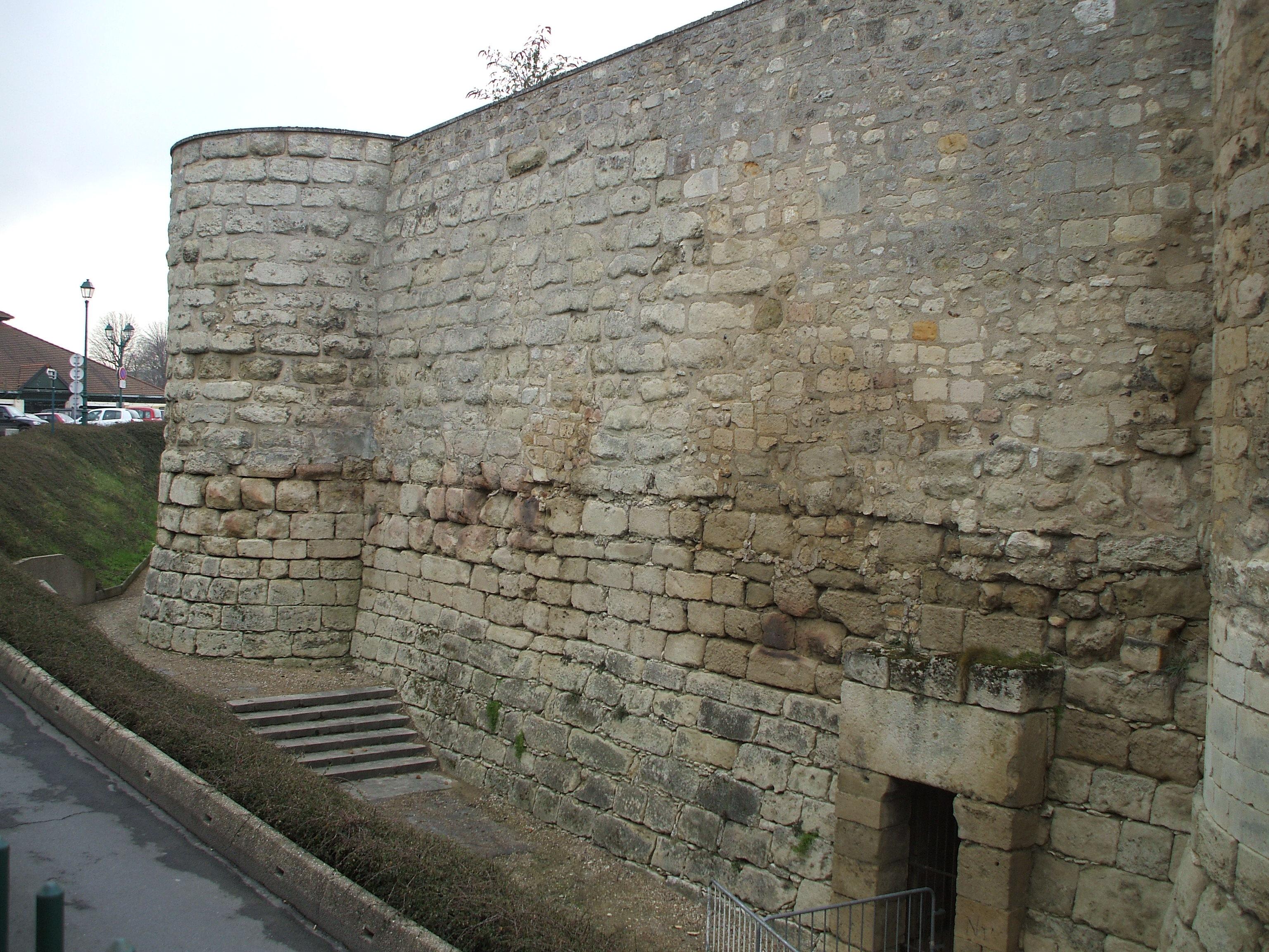 hight wall of Beaumont-sur-Oise castel's